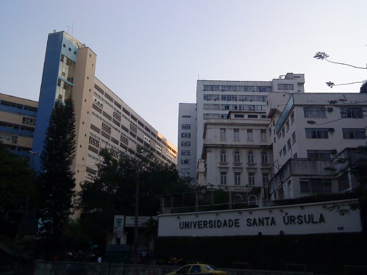 Santa Ursula University